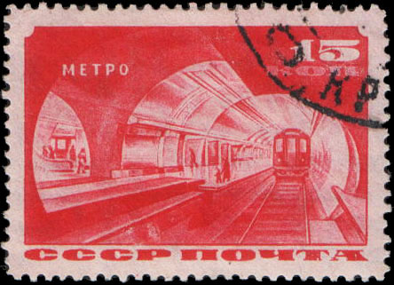 Stamp of the Soviet Union, a metro train in the tunnel, 1935, CPA #498.